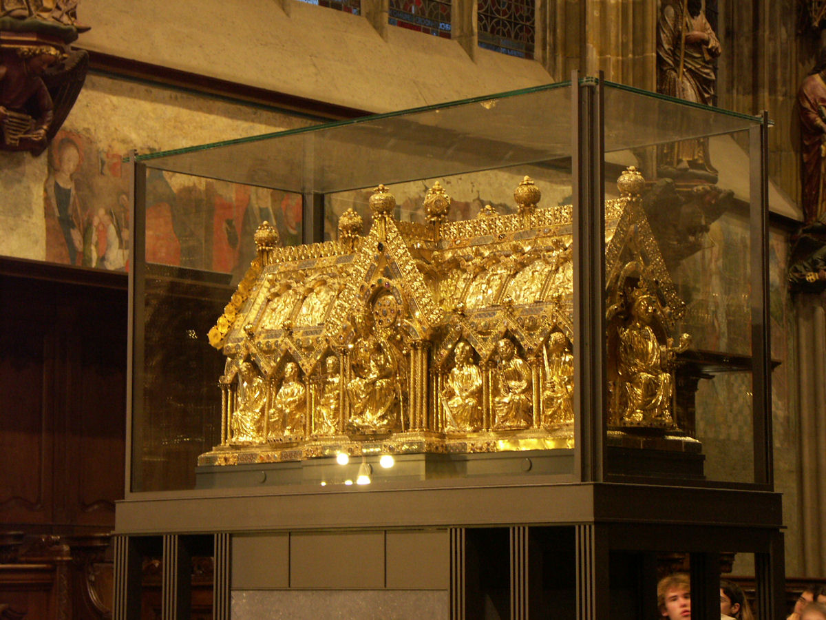 Shrine of the Virgin Mary (1239), contains the cloak of the Blessed Virgin, the swaddling-clothes of the Infant Jesus, the loin-cloth worn by Christ on the Cross, and the cloth on which lay the head of St. John the Baptist after his beheading, Aachen Cathedral, Aachen, Germany